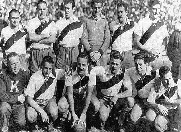 River Plate squad for the 1948 season: Yácono, Vaghi, Ferreyra, Carrizo, Ramos, Rossi; Reyes, Moreno, Di Stéfano, Labruna, Loustau